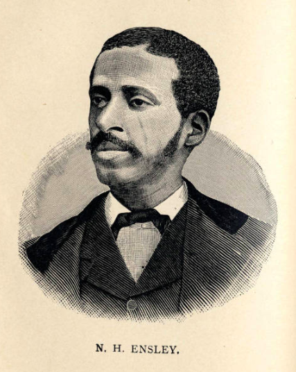 Newell Houston Ensley (1852-1888) was born in Nashville on August 23, 1852, the son of George and Clara Ensley. In June, 1878, he was graduated from Roger Williams University in Nashville and entered Newton (Mass.) Theological Seminary. He began teaching rhetoric, Hebrew and science at Howard University, and later transferred to Alcorn University. He died ca. 1888.